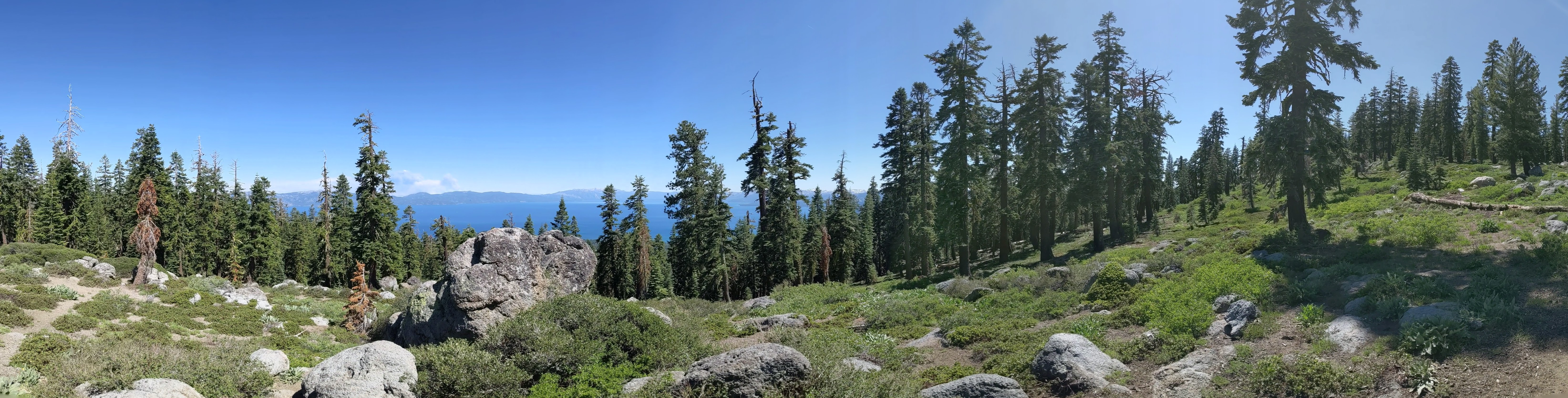 Panoramic view of Lake Tahoe and the top of Mount Watson